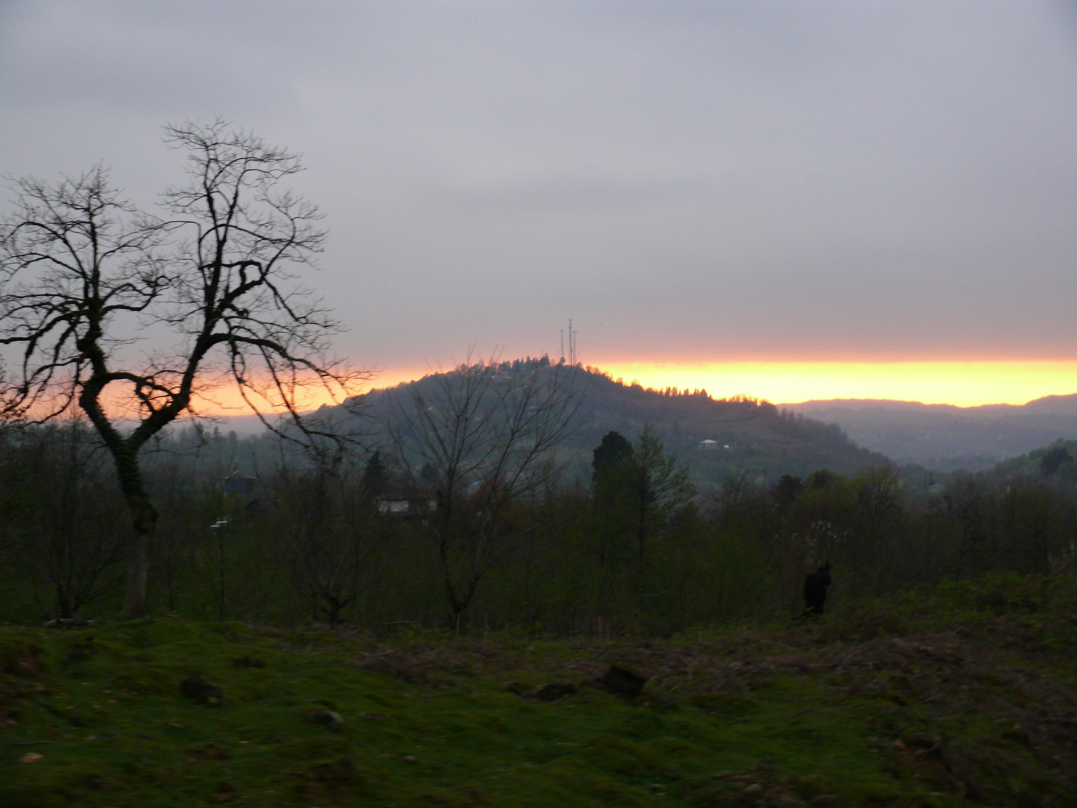 Mtispiri